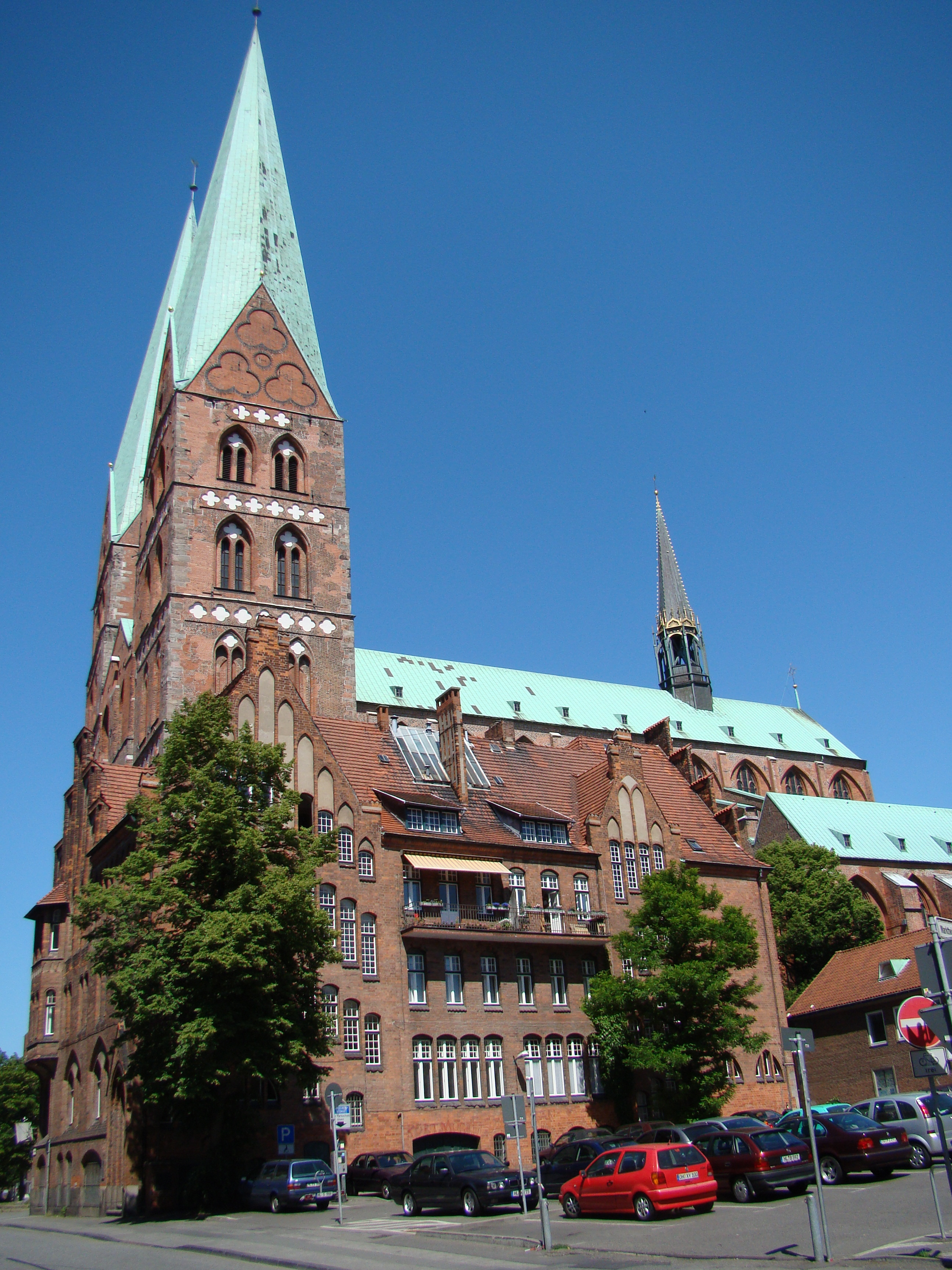 St. Mary's Church, Lubeck, Germany